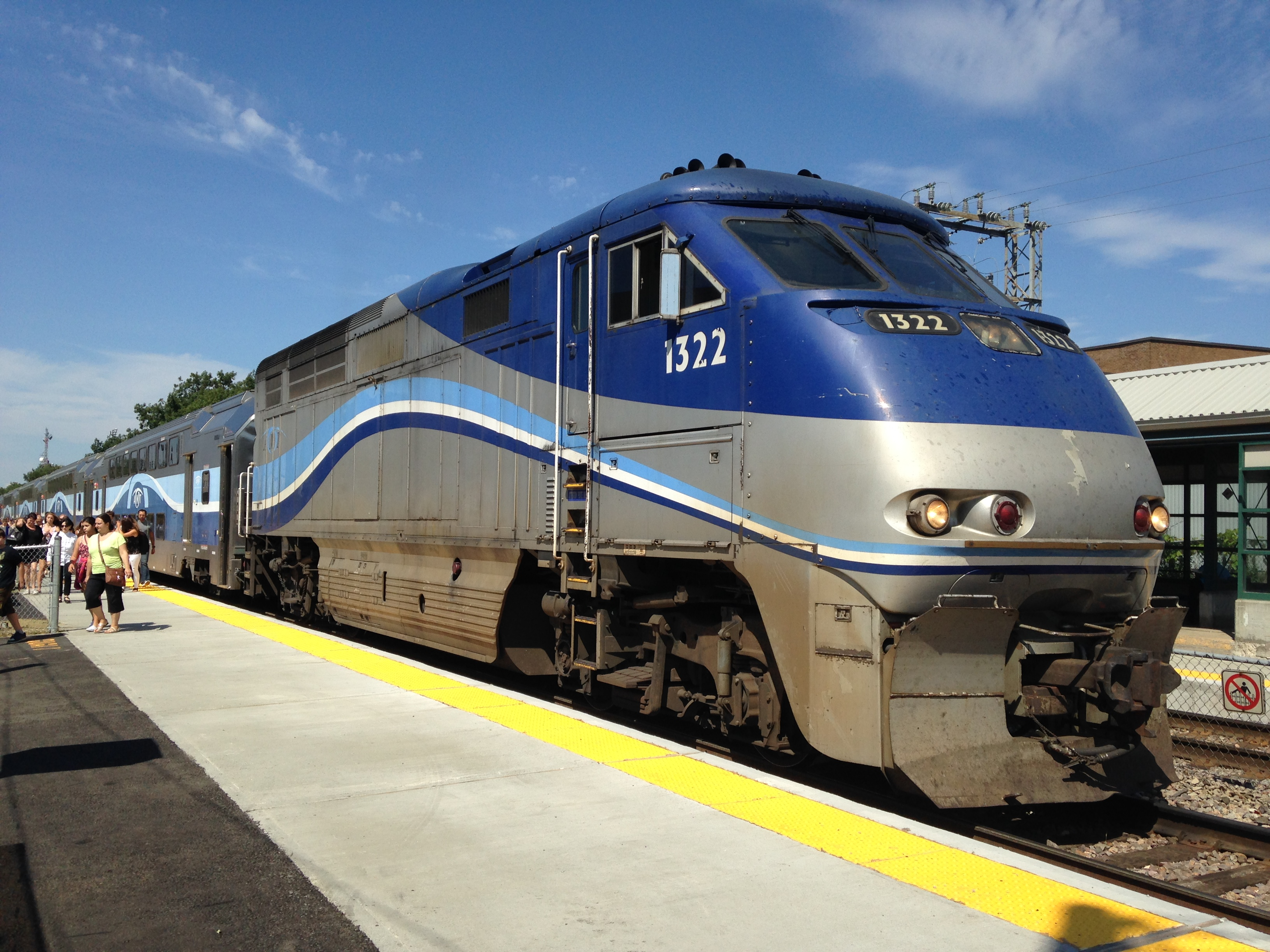 AMT train. Saint-Jérôme Line. Inbound train at Parc Station